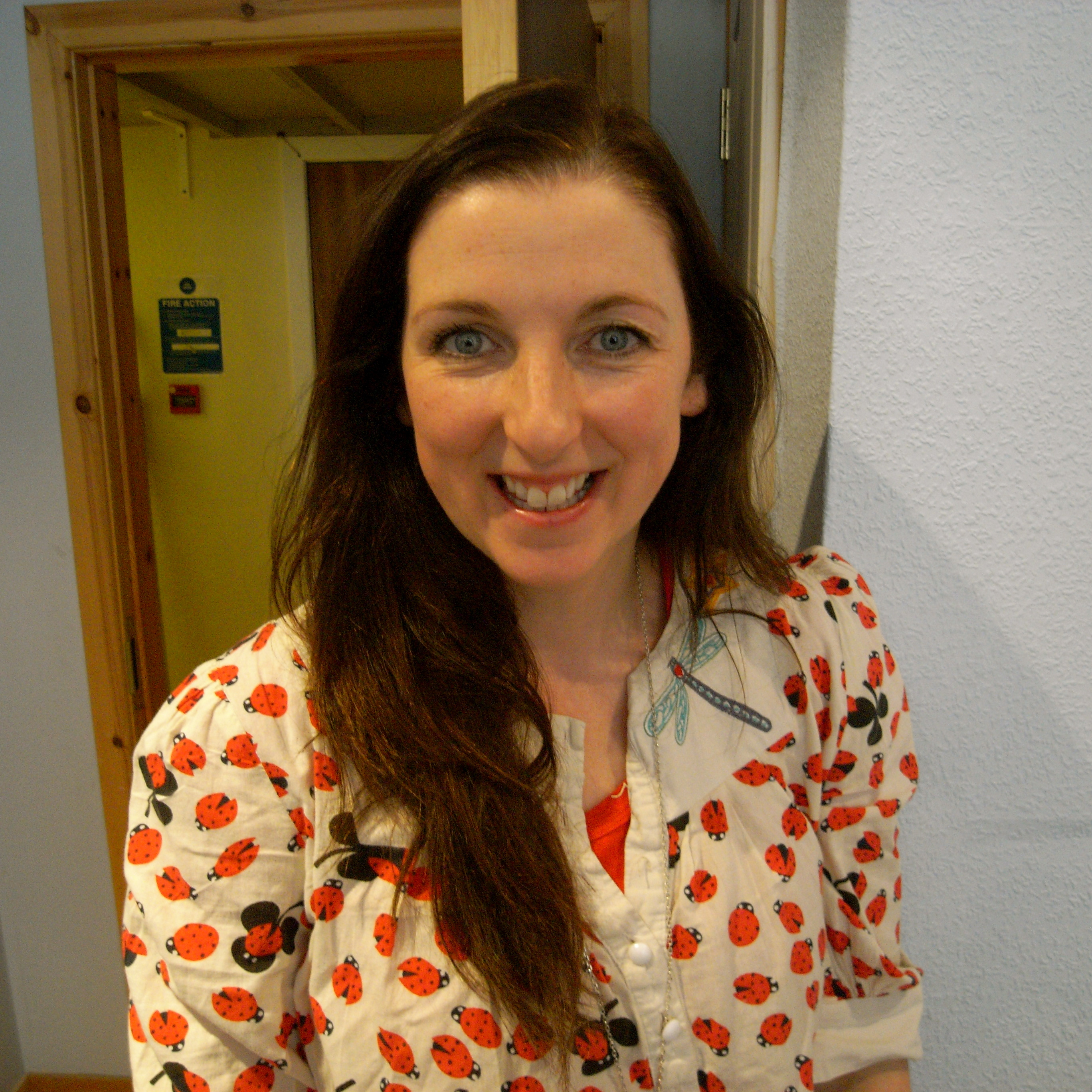 Lovely Sue in the show.